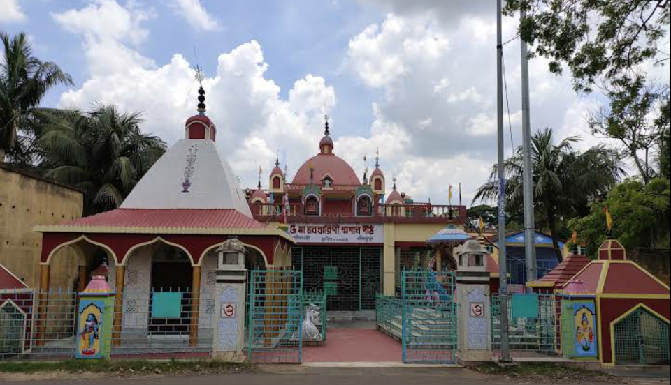 Temple